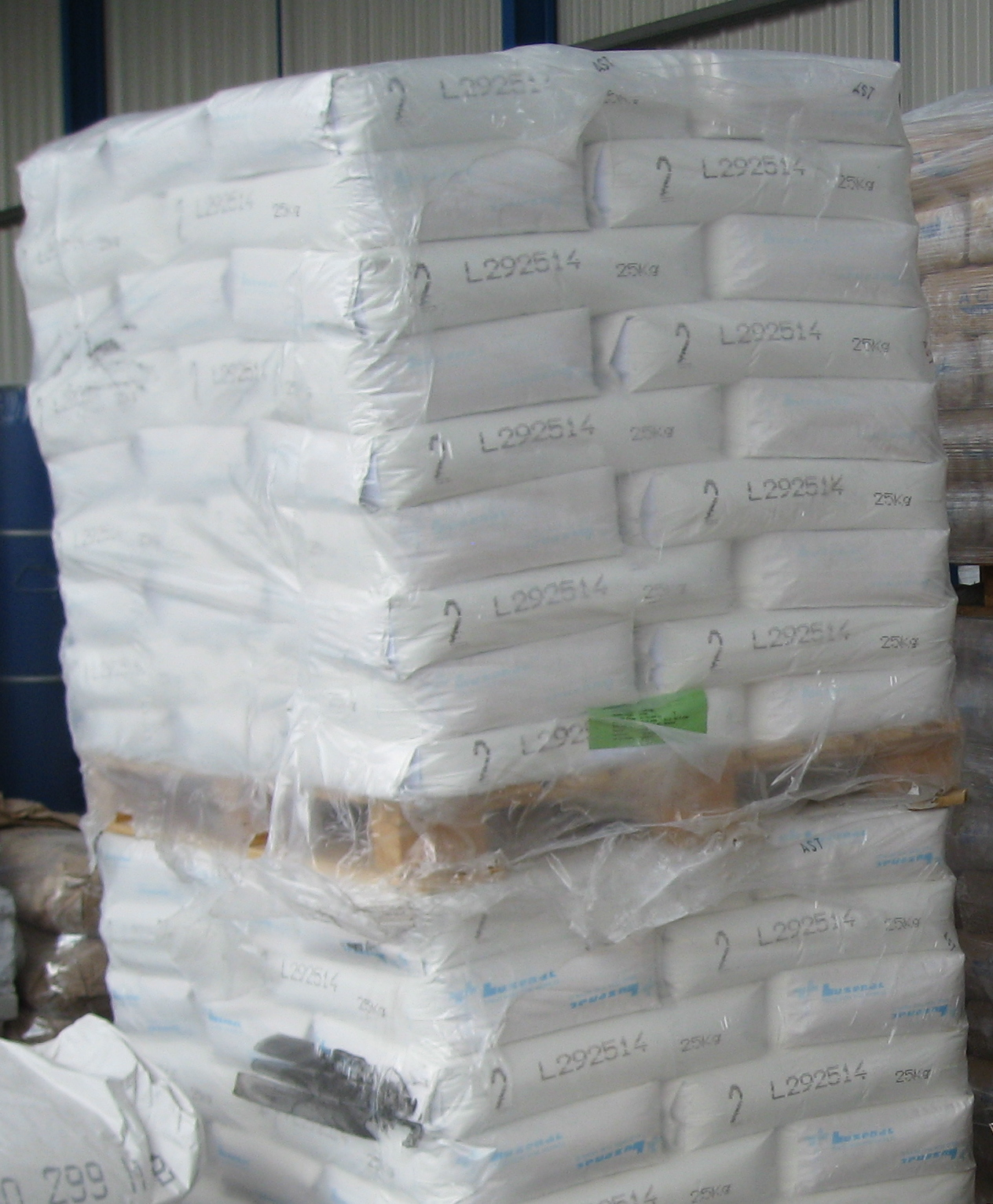 Filler: talc; grade: Luzenac 2. Natural talc from Luzenac; supplied in powder, packaged in 25 kg paper-bags and delivered on pallets.